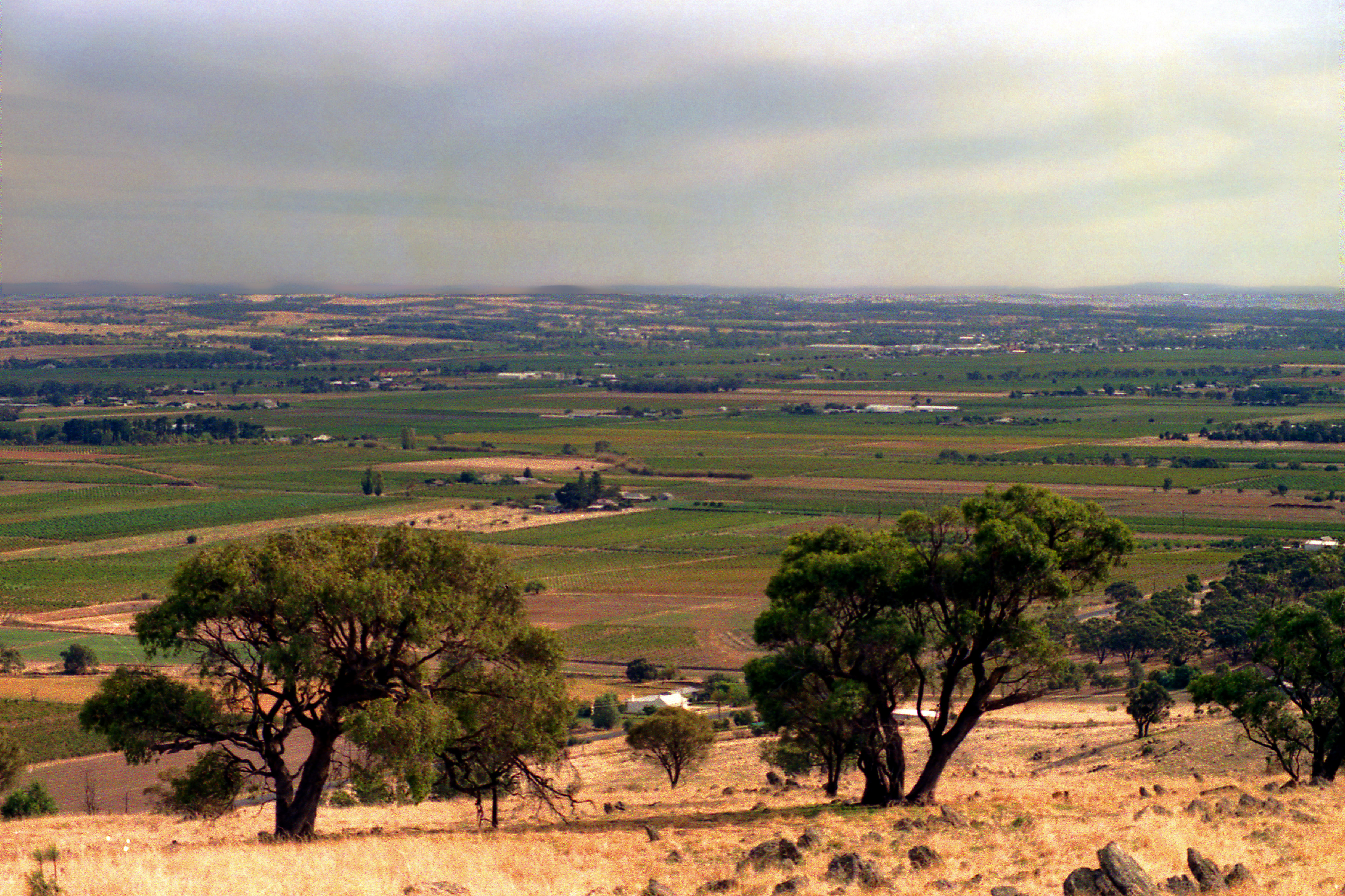 Barossa Valley, South Australia, 1987